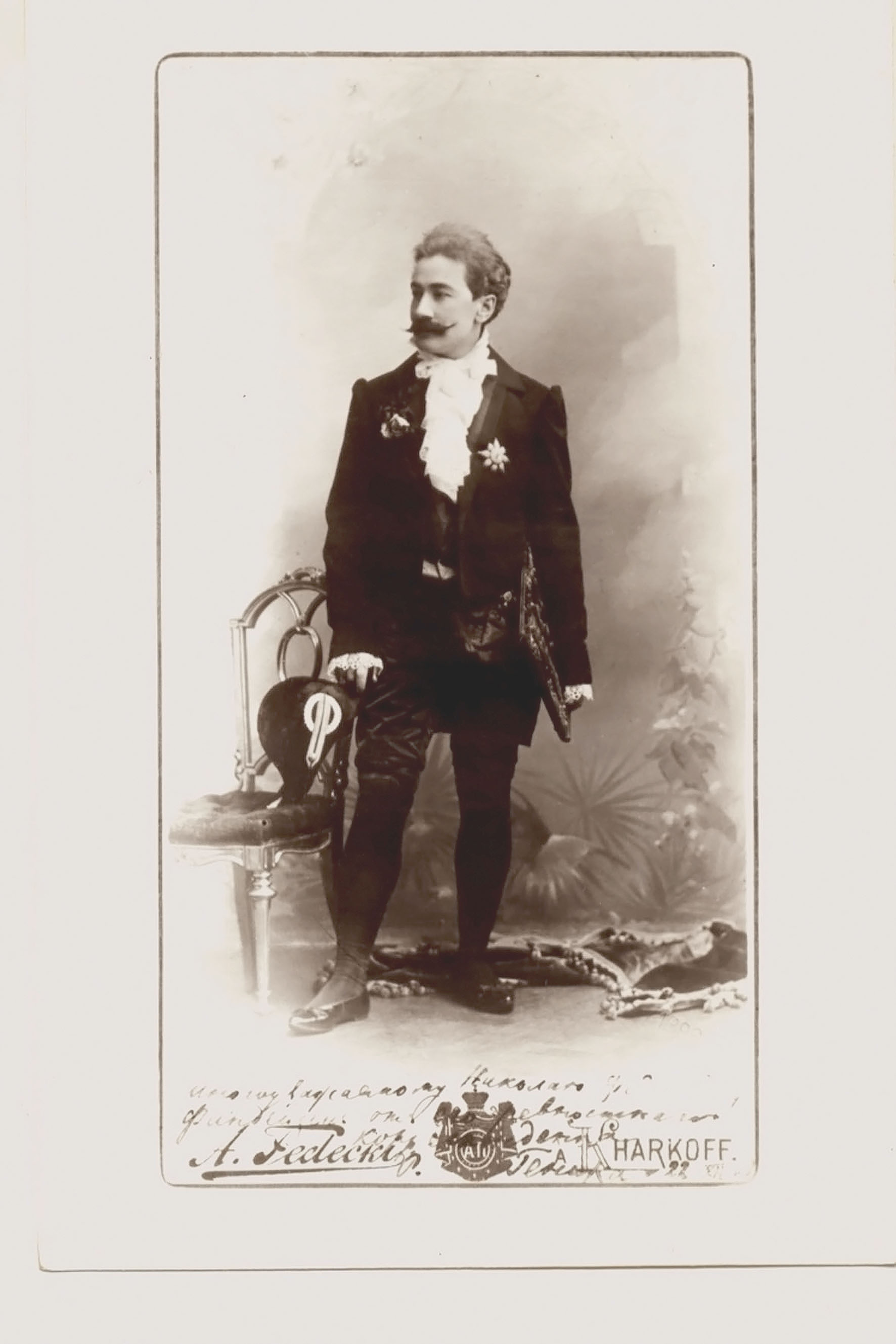 Russian and Ukrainian pianist Rostislav Genika (1859—1942) portrayed about 1899 in Kharkiv.